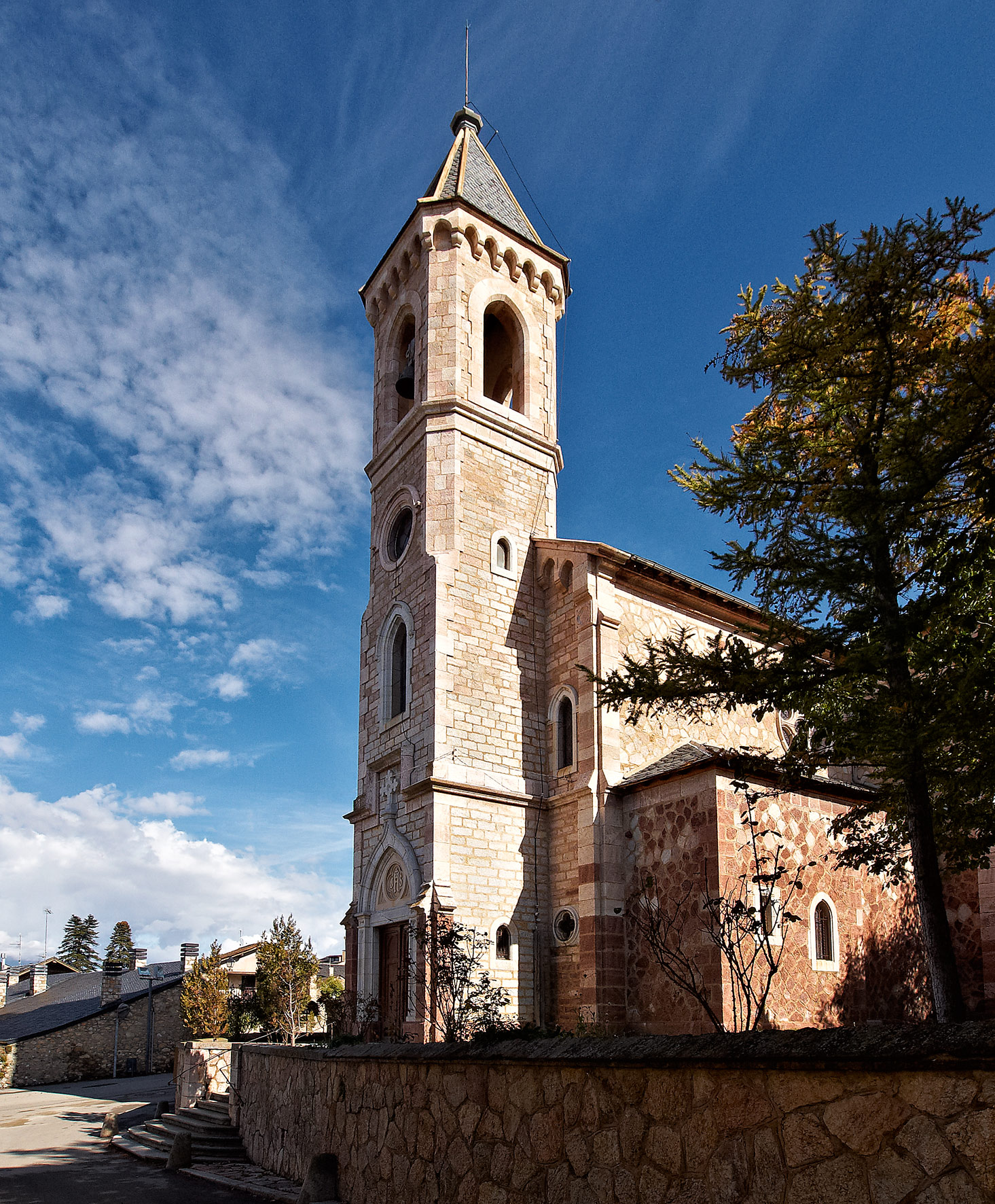 Das church (Catalonia, Spain)